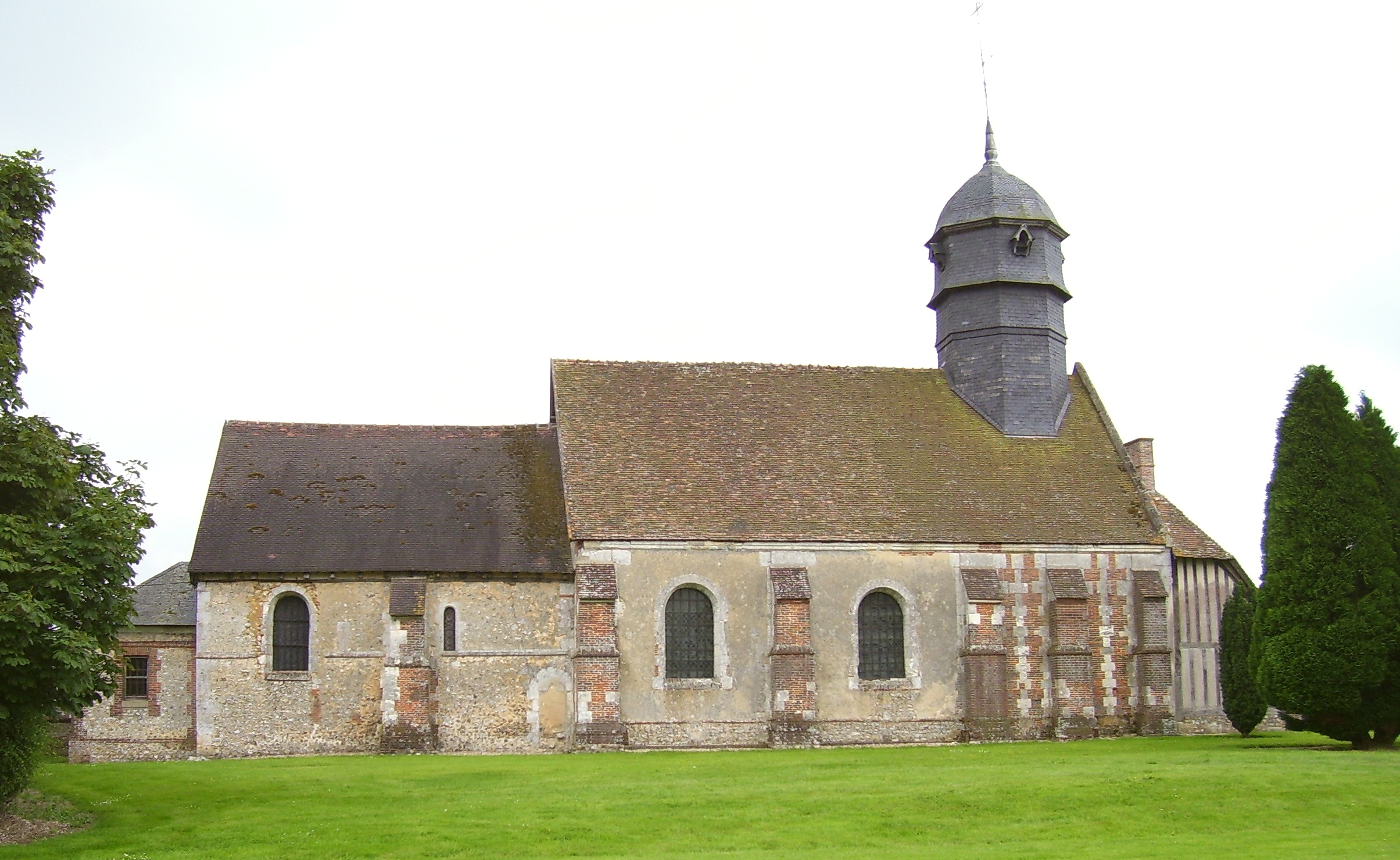 Church Saint-Cyr-Sainte-Julitte (12th century) in Brétigny (Eure), France